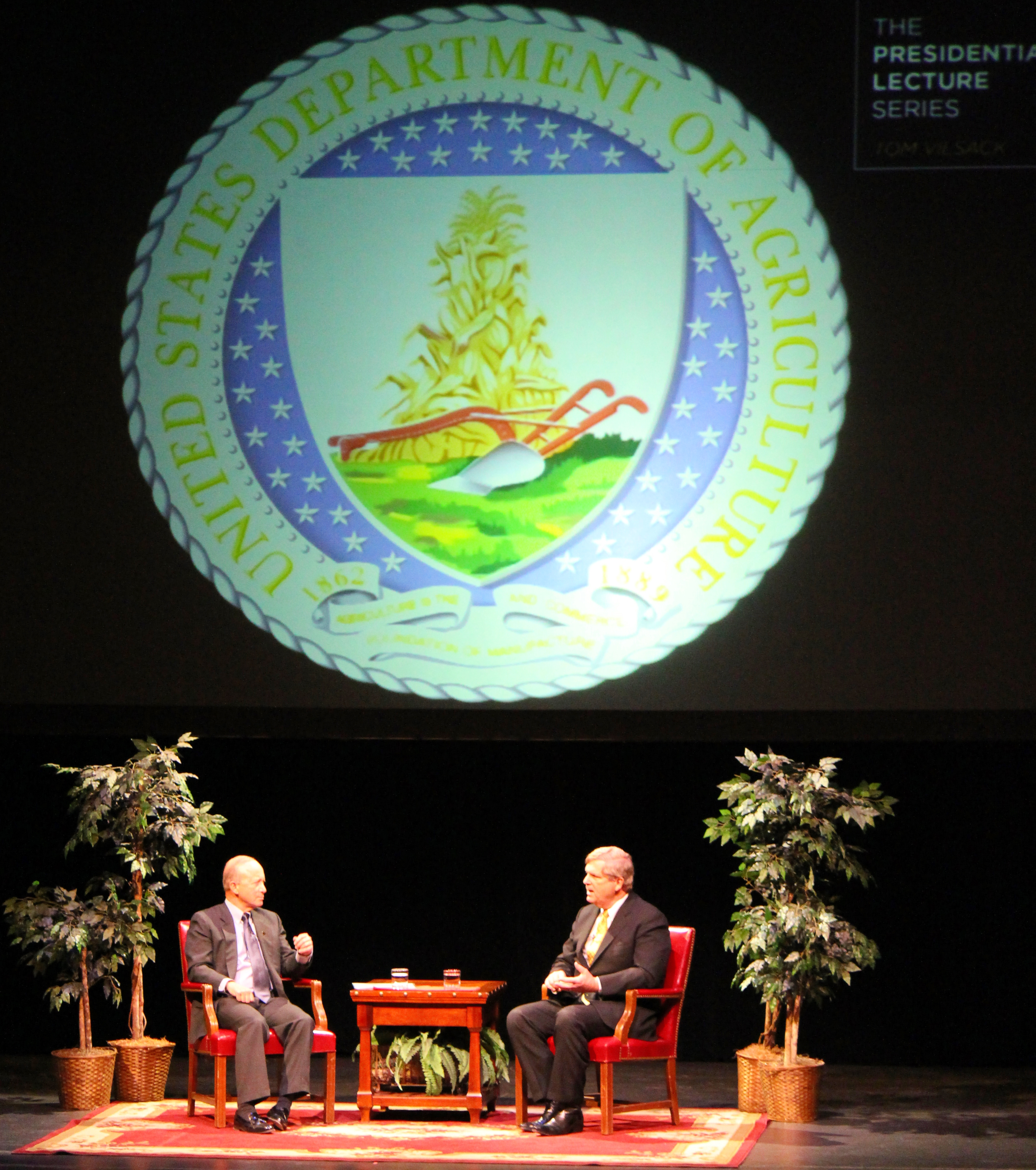 Presidential Lecture Series